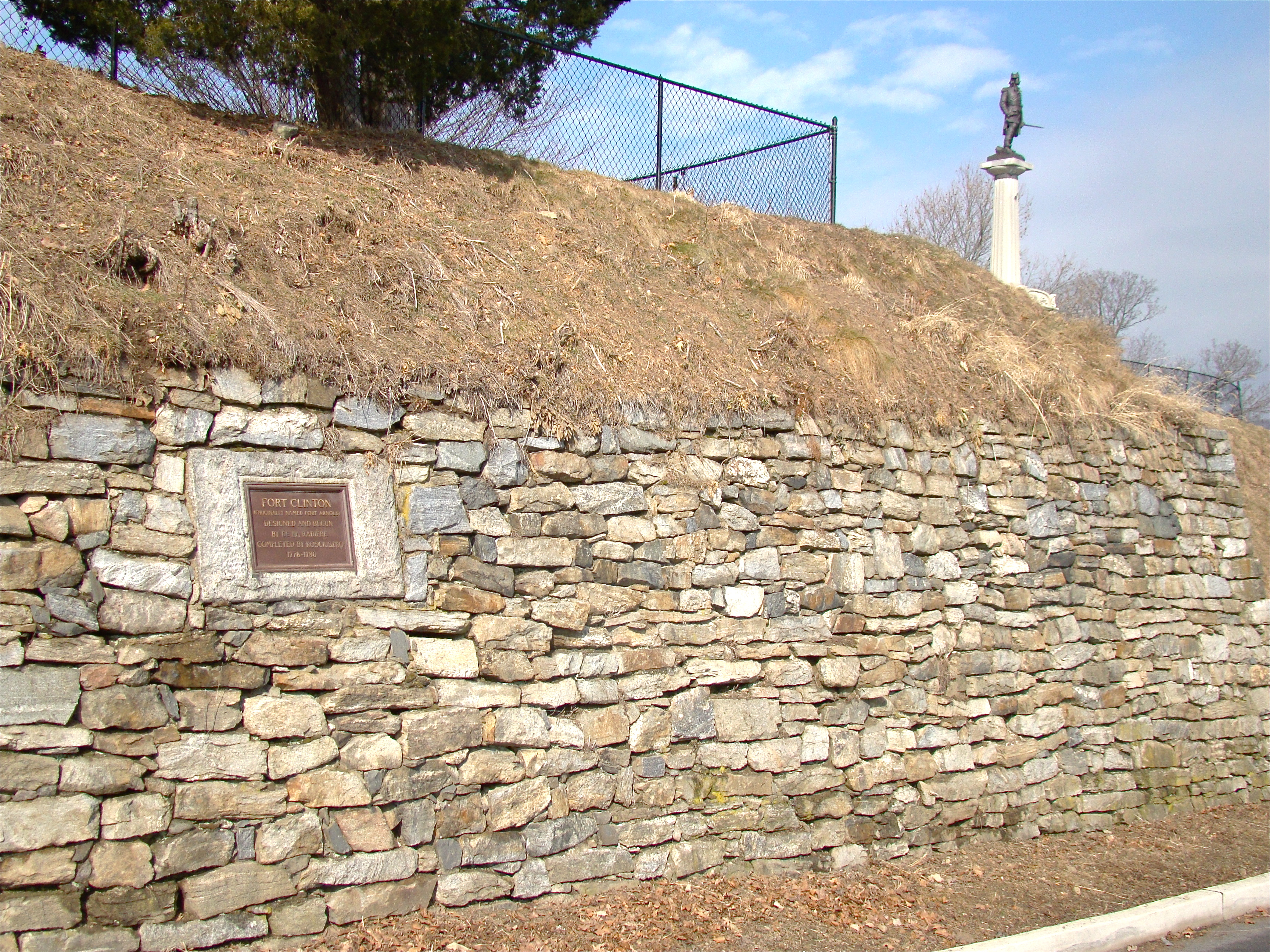 Remains of Ft. Clinton, NY - Revolutionary War defensive work at West Point, NY